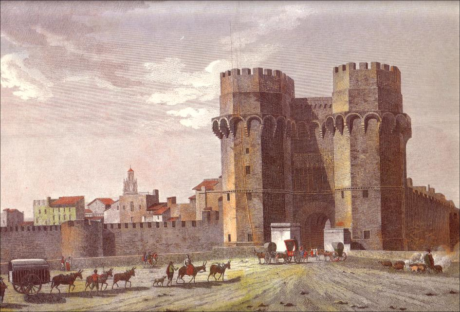 Torres de Serranos and the city walls, Valencia, Valencian Community, Spain. Old drawing.